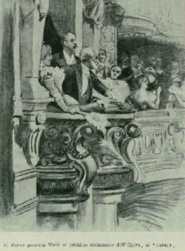 Verdi-La Scala premiere of Falstaff 1893